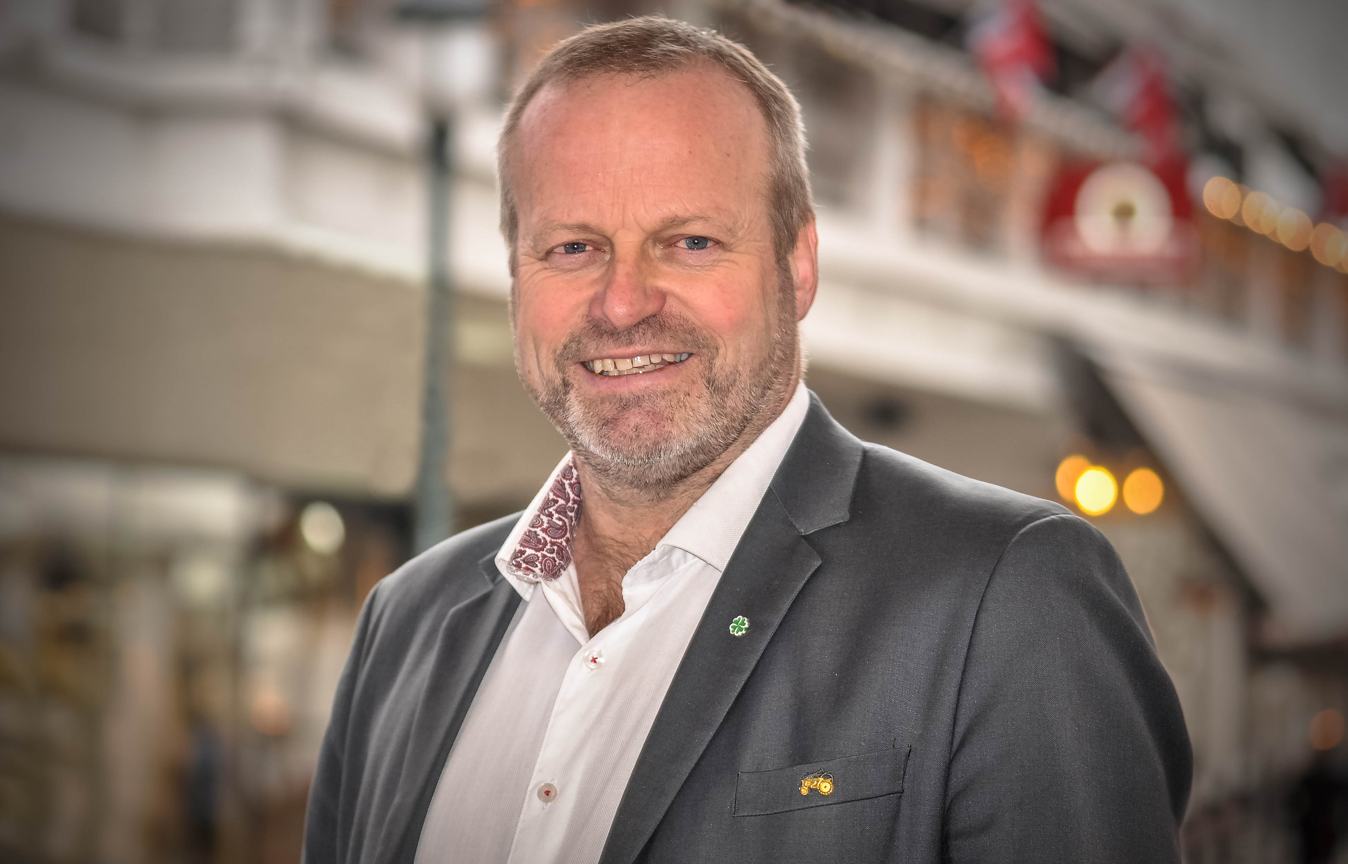 Foto: Ragne B. Lysaker, Senterpartiet